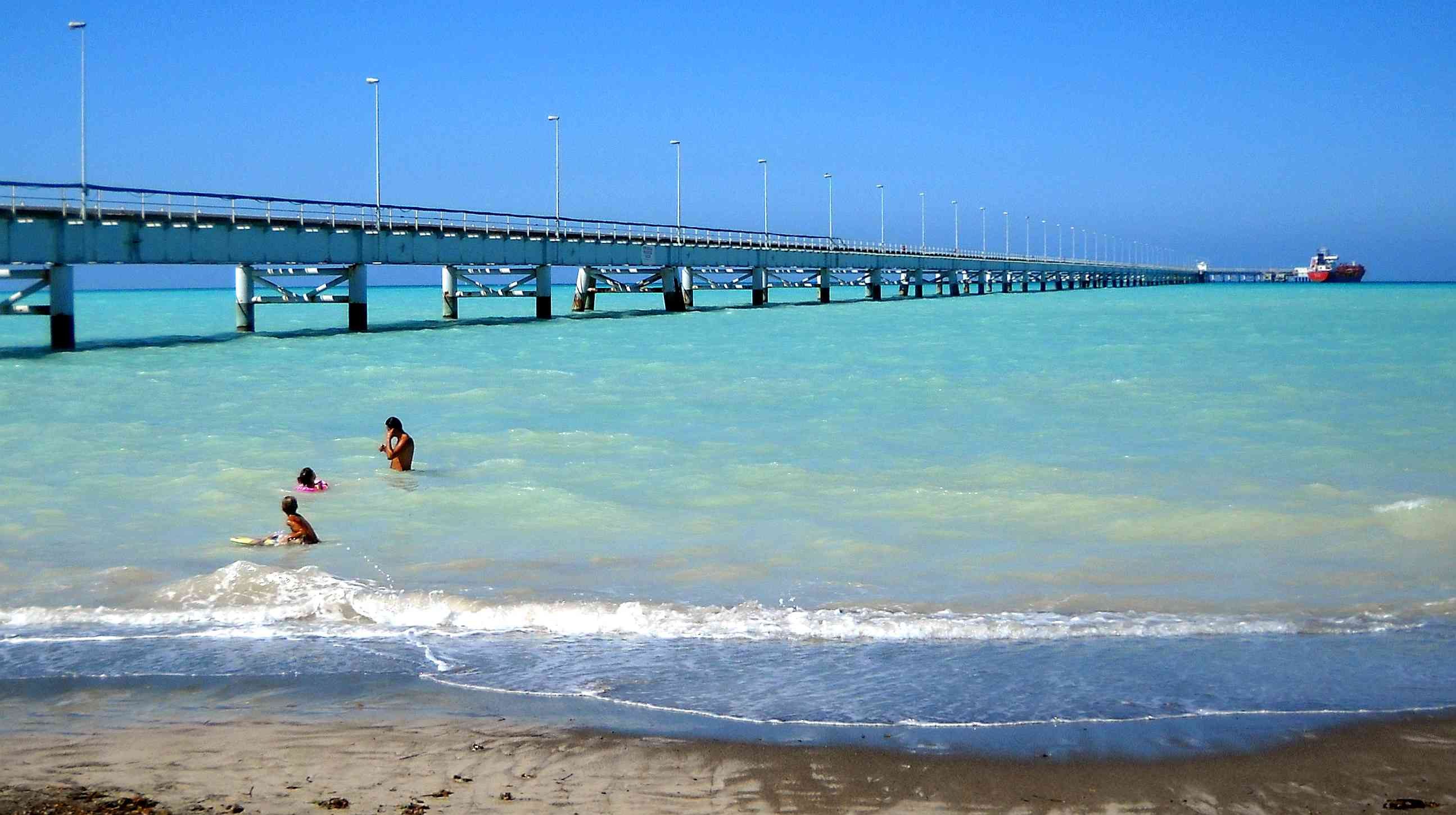 Vada (LI, Italy): Solvay's pier